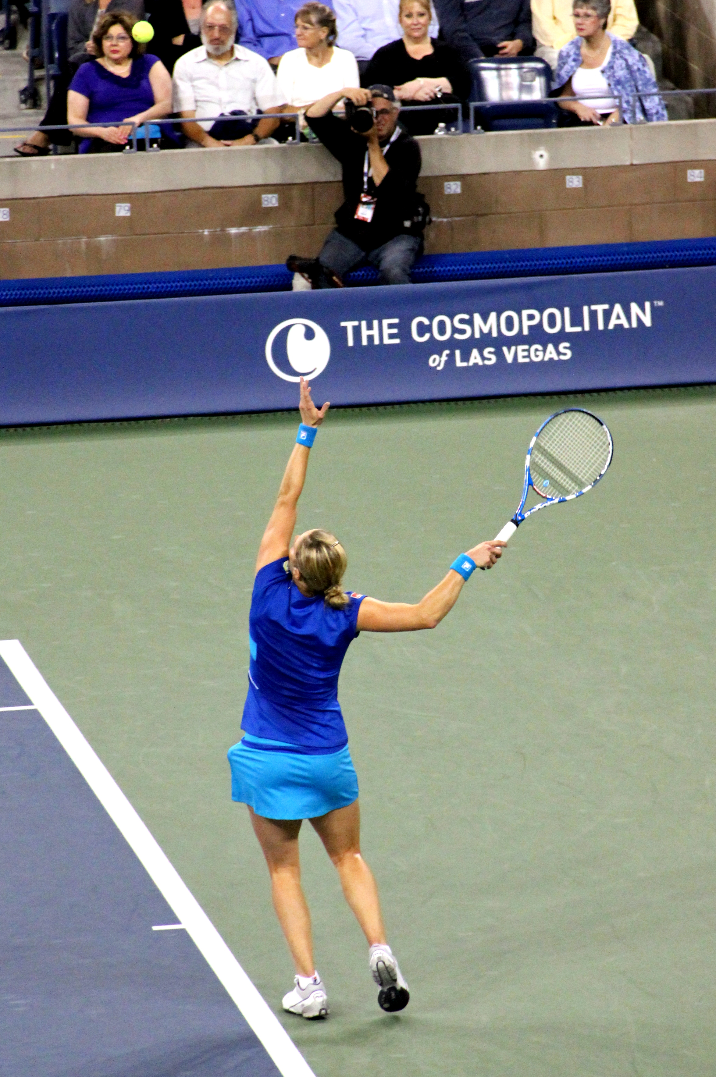 Clijsters vs. Stosur match on Tuesday night, 9/7 at the US Open. The Cosmopolitan is in New York for the 2010 US Open, inviting attendees and guests to experience signature views from our Overlook and in our custom designed suite with prime-stadium seating. For more information on The Cosmopolitan visit